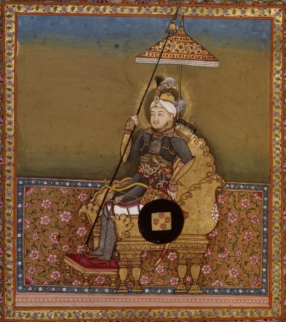 National Library of France, Department of Manuscripts, Eastern Division Rating: Smith-Lesouëf (East) 246 Author / Title: collection of paintings (portraits) As usual: Name of country: India Origin: delhi Century: 18th century Date: circa 1774 Artist: Smith-Lesouëf (East) 246, fol. 1v, Timur